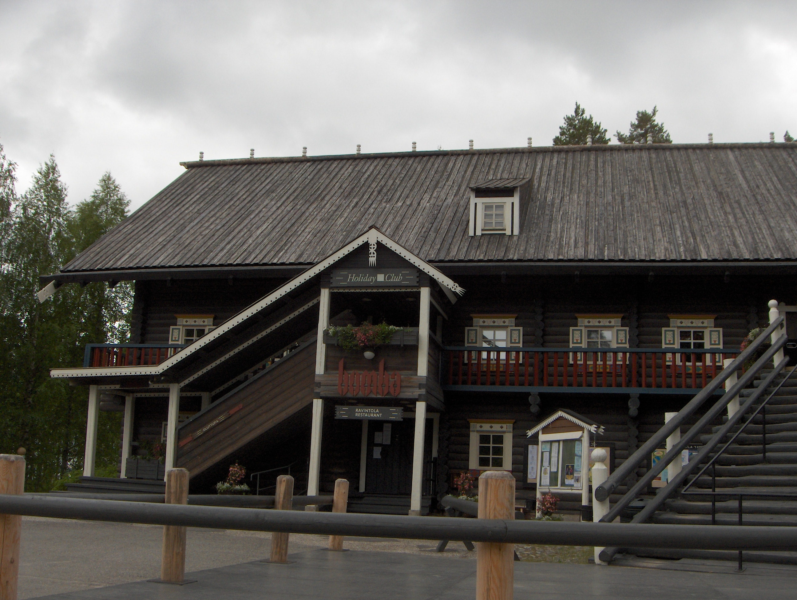 Bomban talo (Bomba House) in Nurmes, Finland